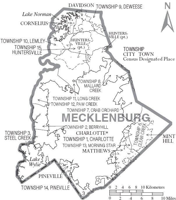 Map of Mecklenburg County, North Carolina, United States with township and municipal boundaries